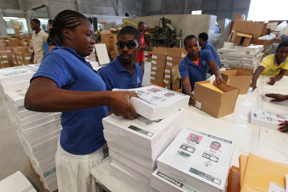 Workers pack Haitian electoral ballots and other voting materials at the Henry Deschamps Printing House in Port au Prince, Haiti. The United Nations Stabilization Mission in Haiti (MINUSTAH) is providing logistical support for the Haitian elelctions which are scheduld to be held on March 20, 2011. PHOTO VICTORIA HAZOU UN/MINUSTAH.